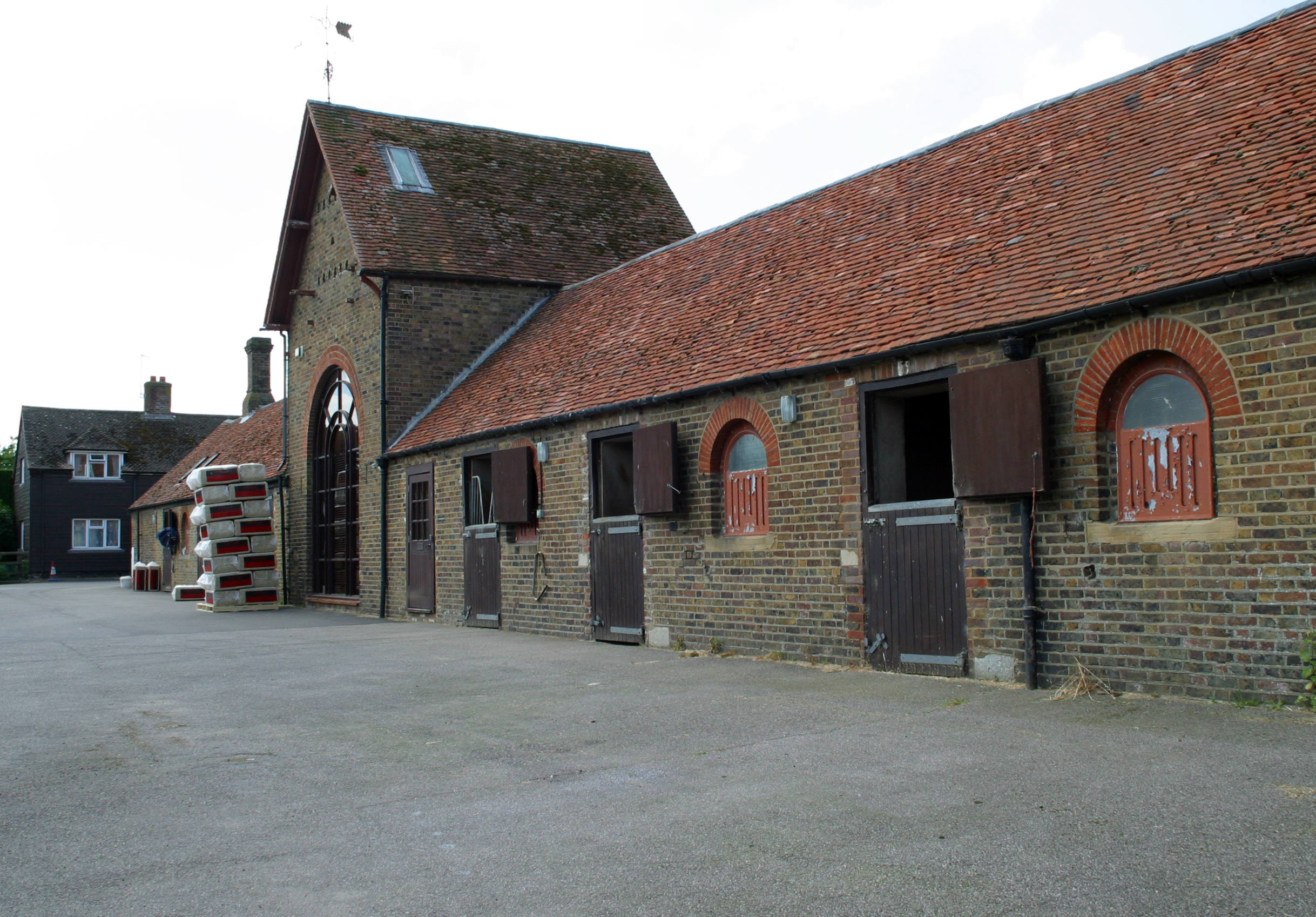 Walter Swinburn Racing Stables in Aldbury. Photographed for Wikipedia by Pointillist and contributed under the cc-by-sa 3.0 license.